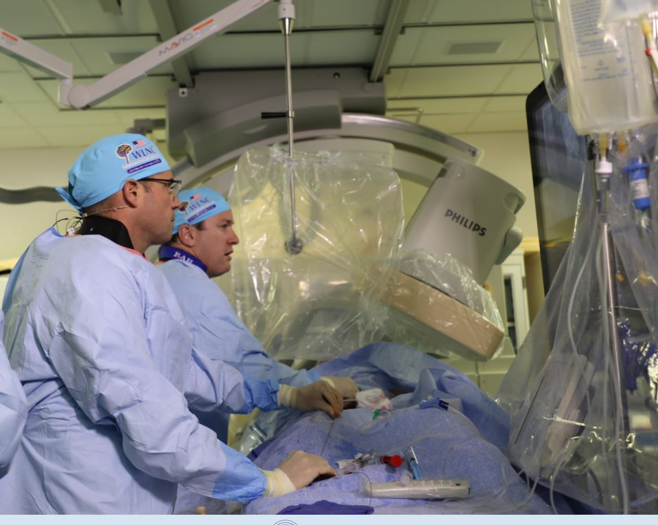 Lyerly neurosurgeons Ricardo Hanel, MD, and Eric Sauvageau, MD, in operating room.